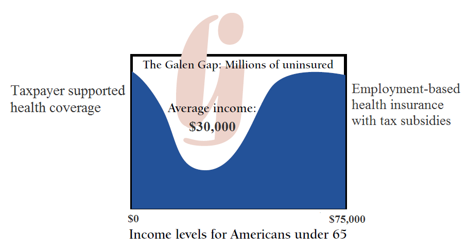 The Galen Institute's logo with explanation text.